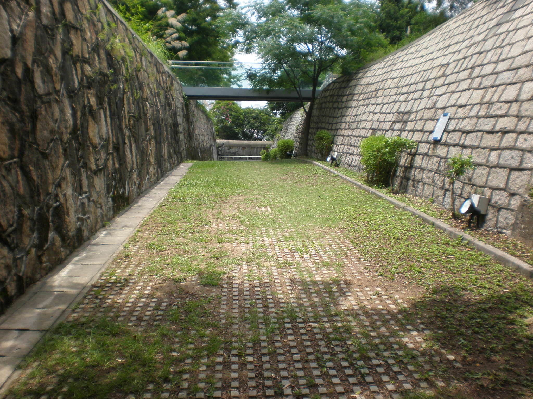 A section of the defensive ditch of Lei Yue Mun Fort. The fort now forms a large part of the Hong Kong Museum of Coastal Defence.